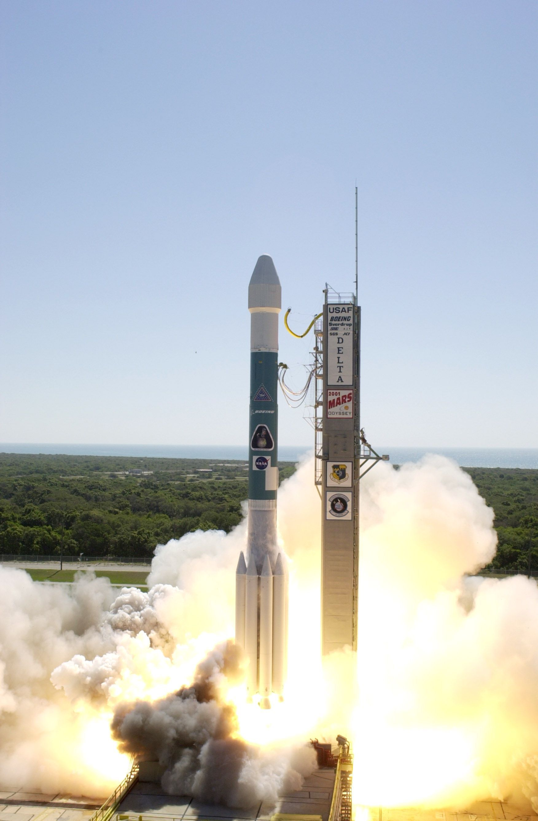 Launch of the Delta II 7925 carrying the 2001 Mars Odyssey in 2001.